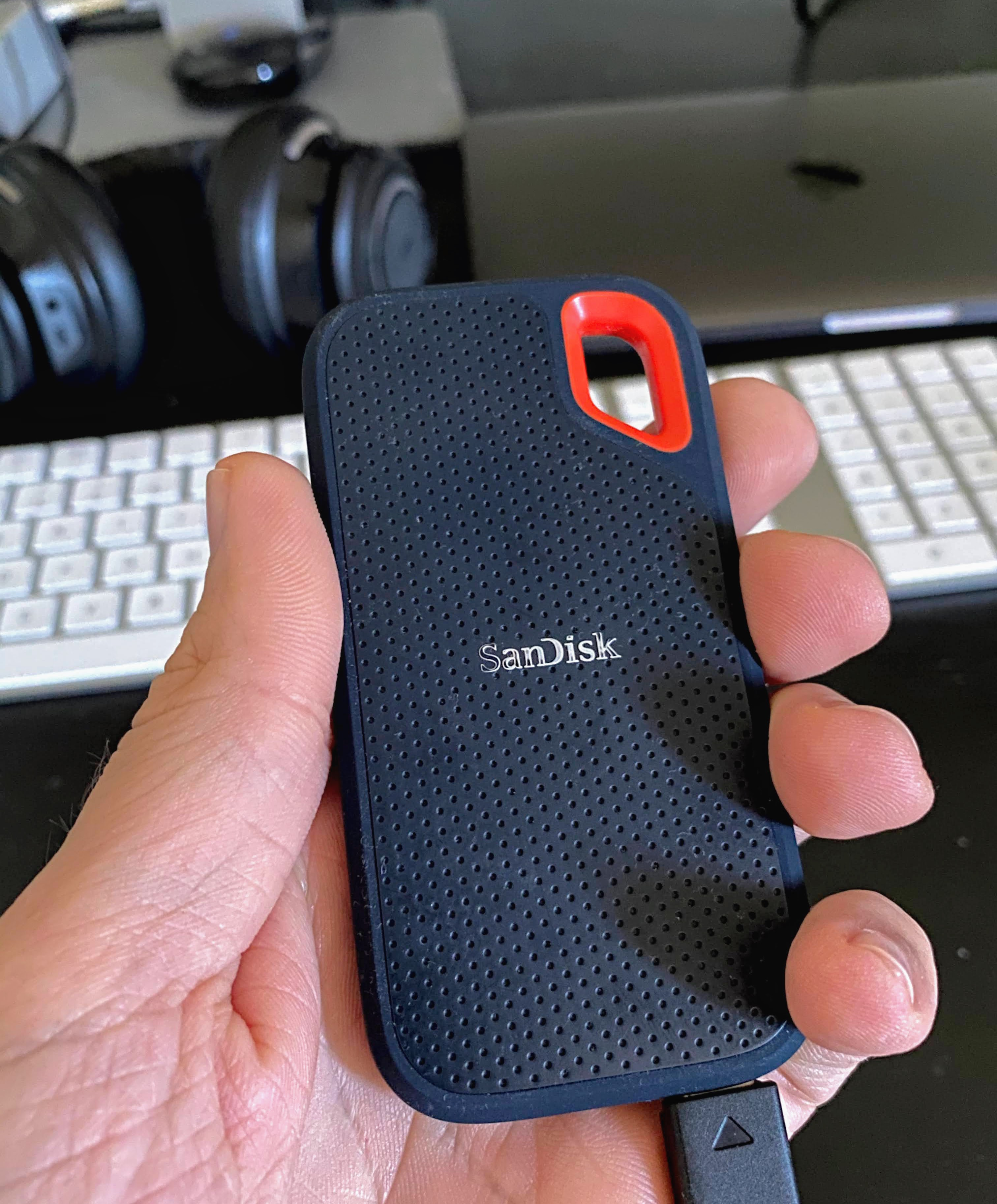 Sandisk extreme portable ssd